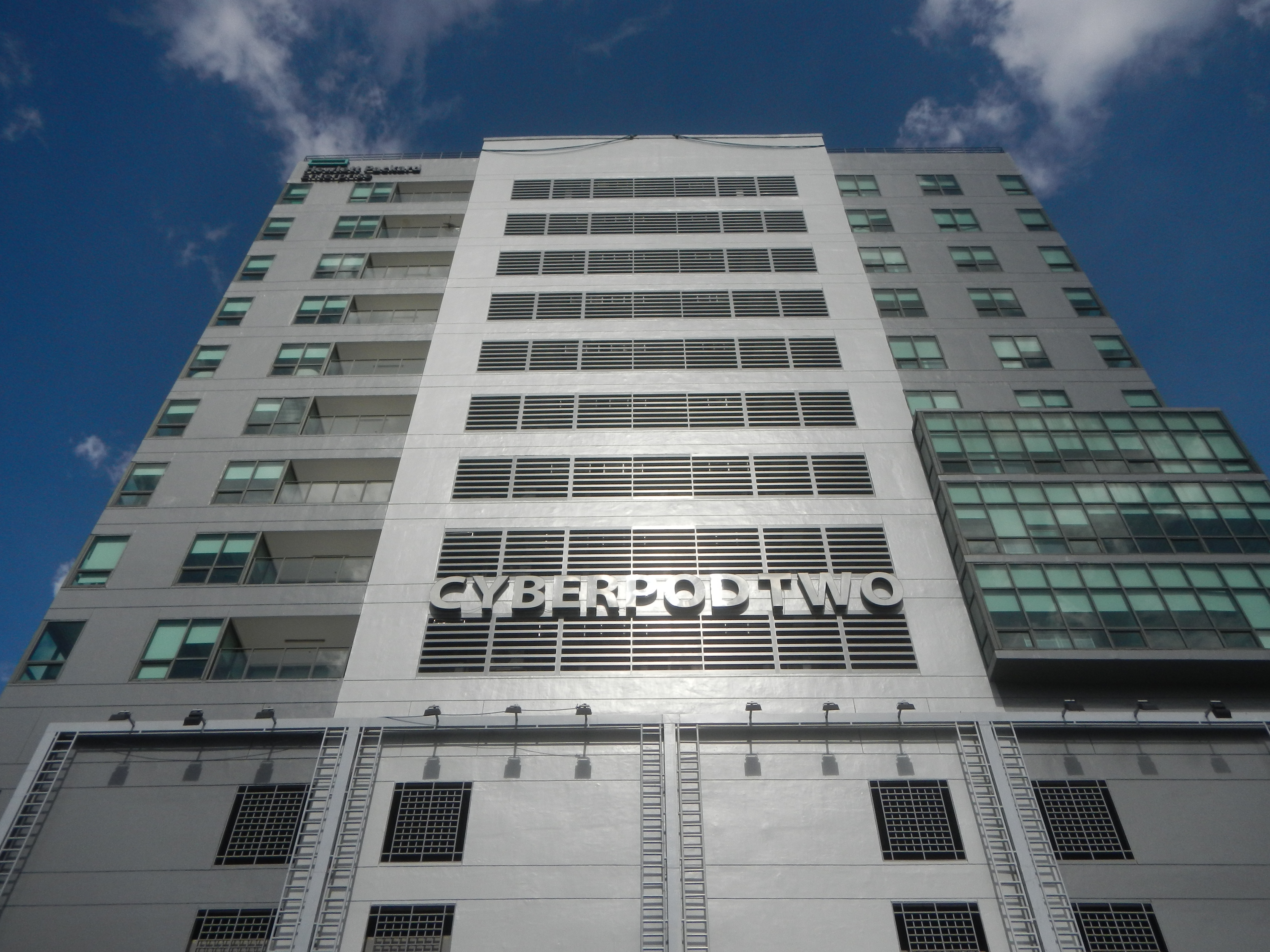 Eton Centris One Cyberpod Centris 14°38'33"N 121°2'21"E Two Cyberpod Centris 14°38'31"N 121°2'23"E Eton Centris Station (Quezon City) 14°38'37"N 121°2'19"E Centris Station Centris Walk Quezon Avenue MRT Station 14°38'33"N 121°2'18"E Quezon Avenue MRT Station in the List of barangays of Metro Manila, Legislative districts of Quezon City District IV, Barangays of Quezon City Pinyahan, District IV, Diliman, Quezon City; from EDSA (road) (Note: Judge Florentino Floro, the owner, to repeat, Donor Florentino Floro of all these photos hereby donate gratuitously, freely and unconditionally all these photos to and for Wikimedia Commons, exclusively, for public use of the public domain, and again without any condition whatsoever).